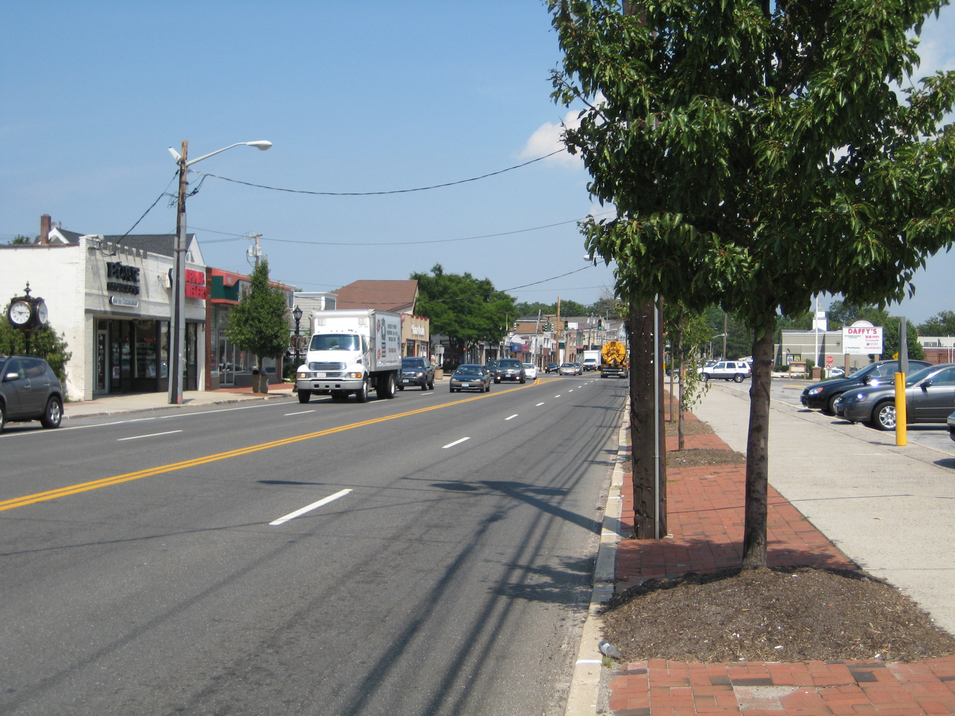 Main Street, Smithtown, New York (NY 25/25A)